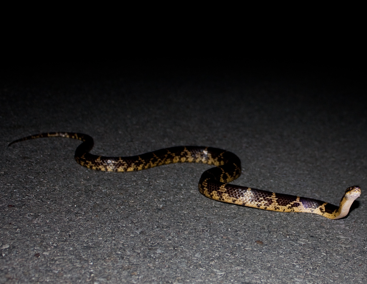 Red banded odd-tooth snake(Dinodon rufozonatum walli) at Kohama Island, Yaeyama Islands, Japan. サキシママダラ